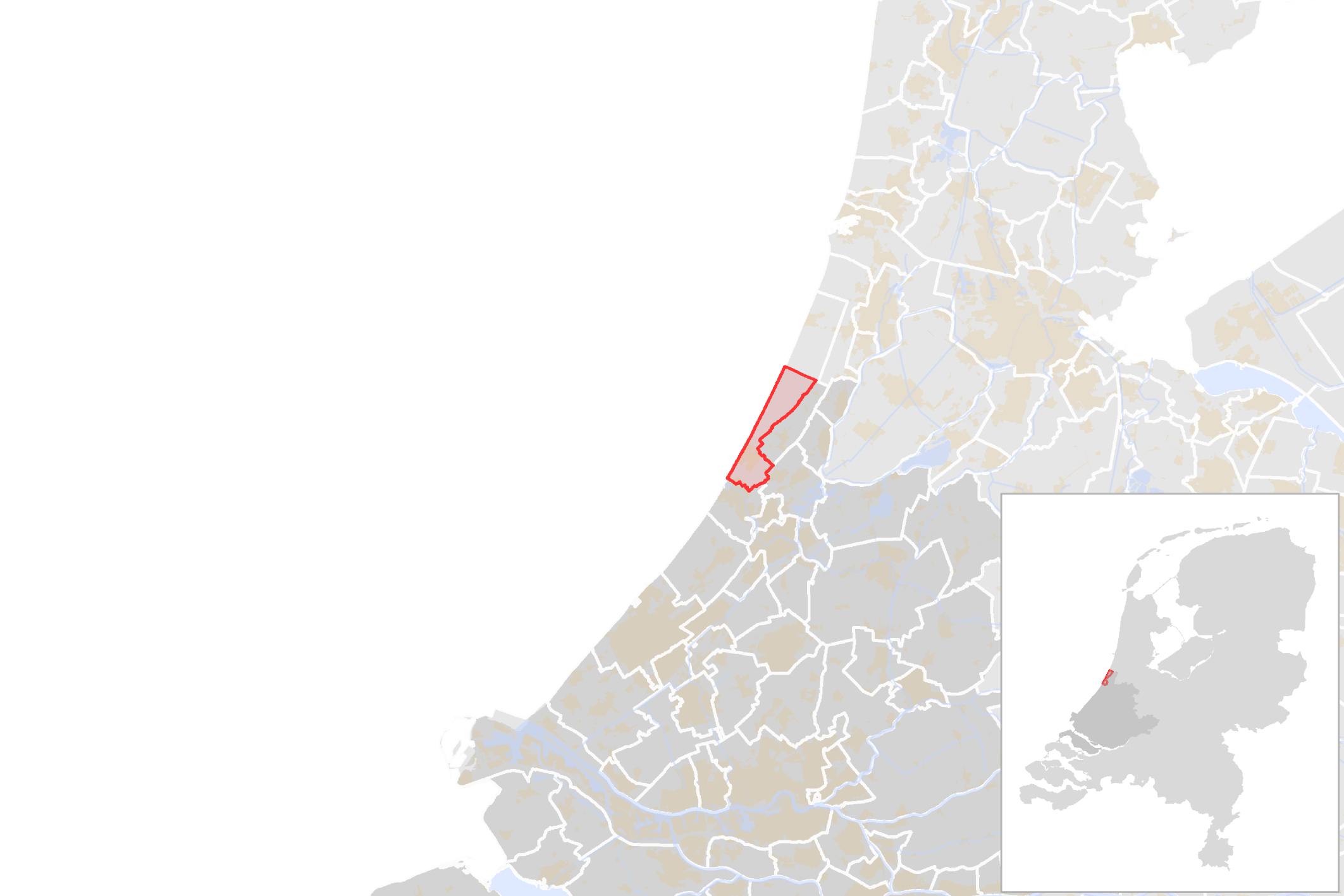 Locator map showing municipality boundary of one of the 390 Dutch municipalities (as of 2016)